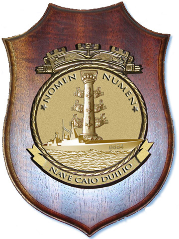 ITS Duilio Crest